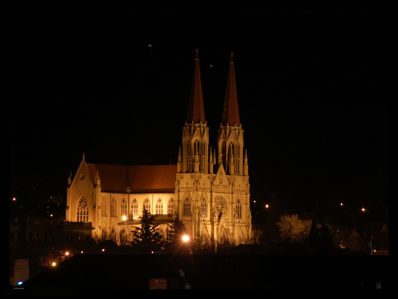 Cathedral of St. Helena